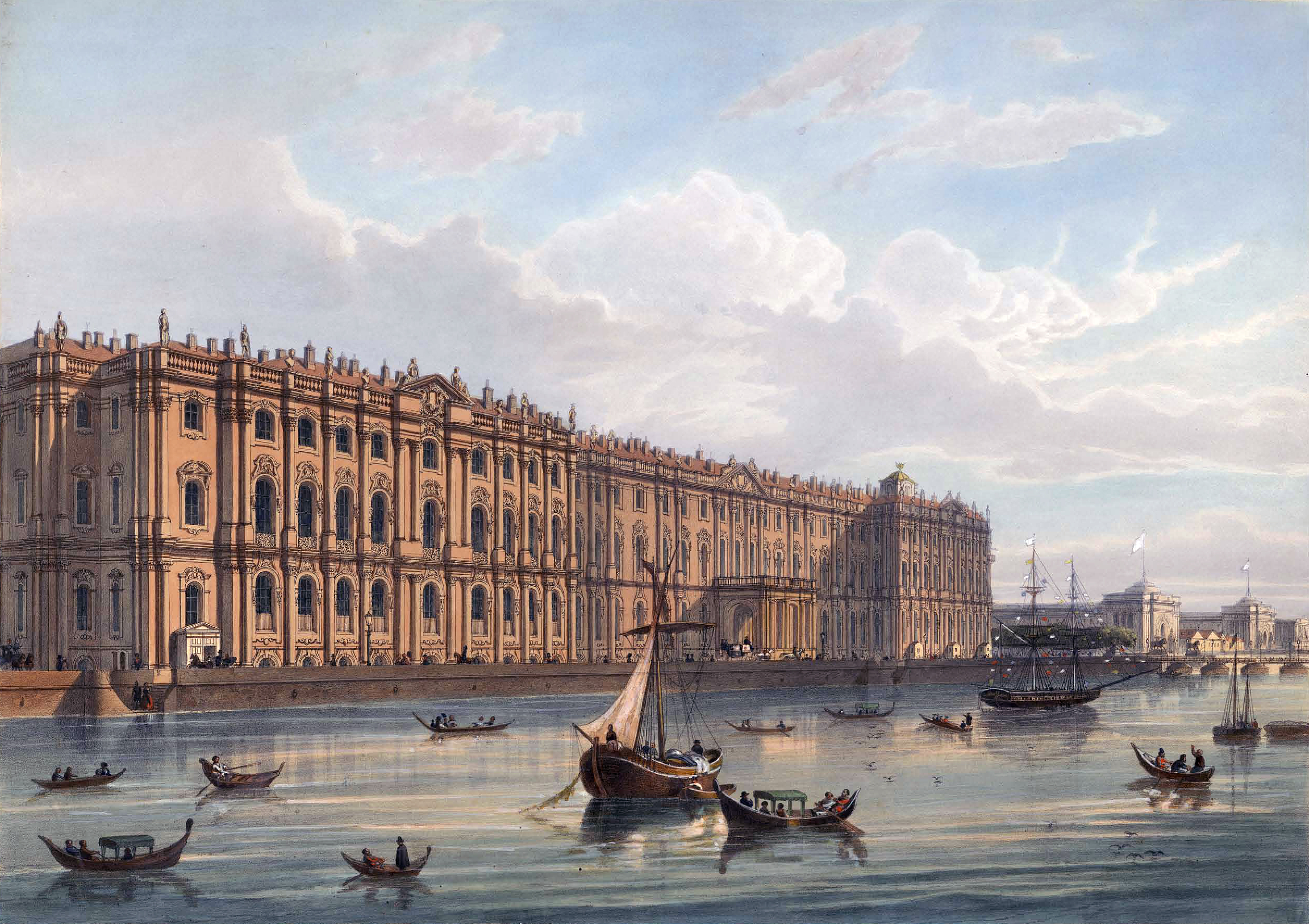 The winter Palace (North facade) in St. Petersburg in the 19th century lithograph after a drawing by Charlemagne